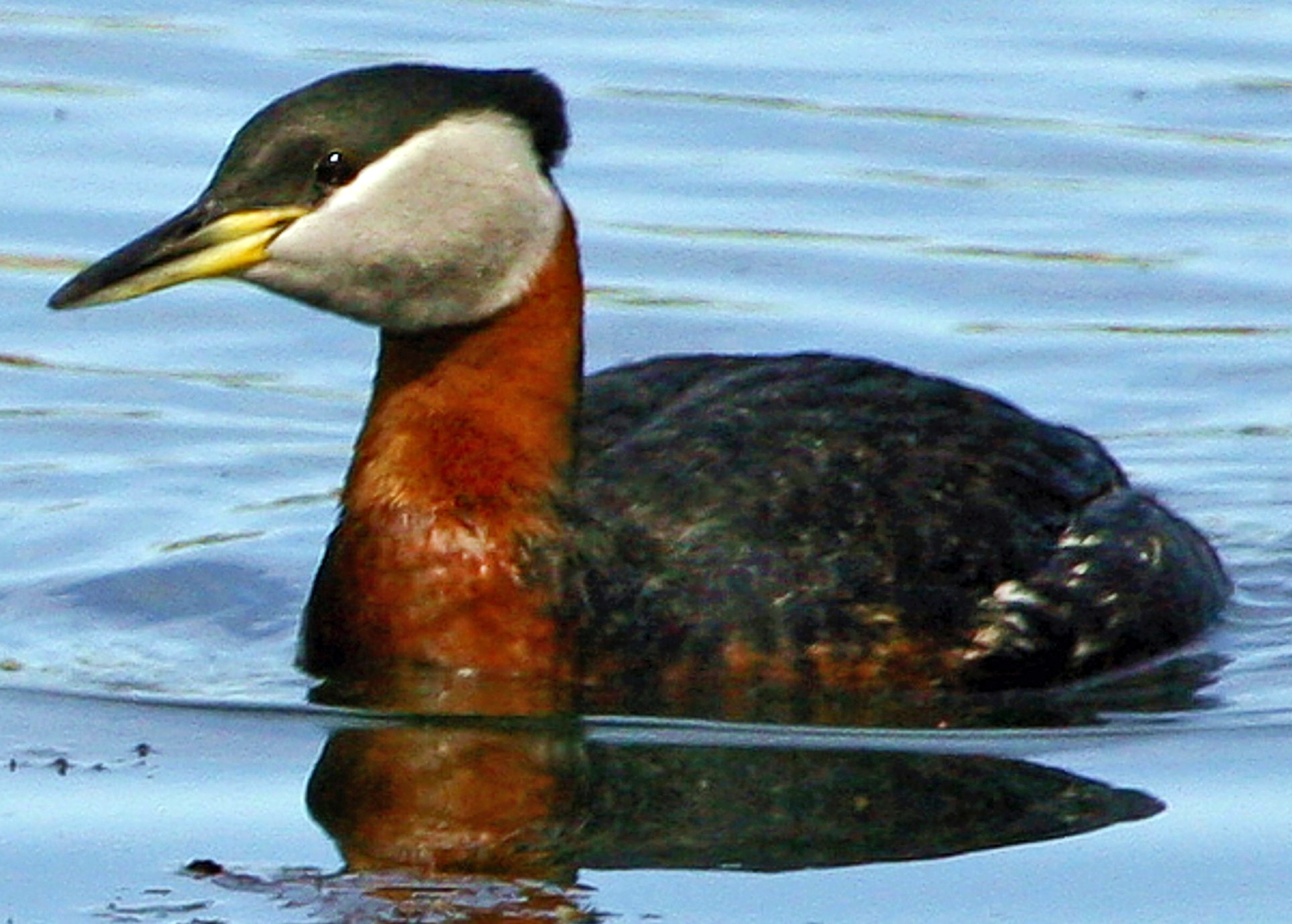 Podiceps grisegena taken at the Anchorage Coastal Wildlife Refuge, Potter's Marsh, in Anchorage.